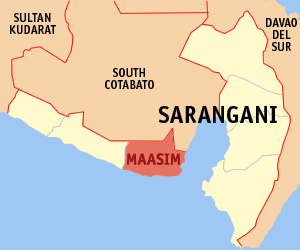 Map of the Sarangani showing the location of Maasim